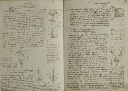 Paris Manuscript D, Folio 3v and 4r, by Leonardo da Vinci, Institut de France